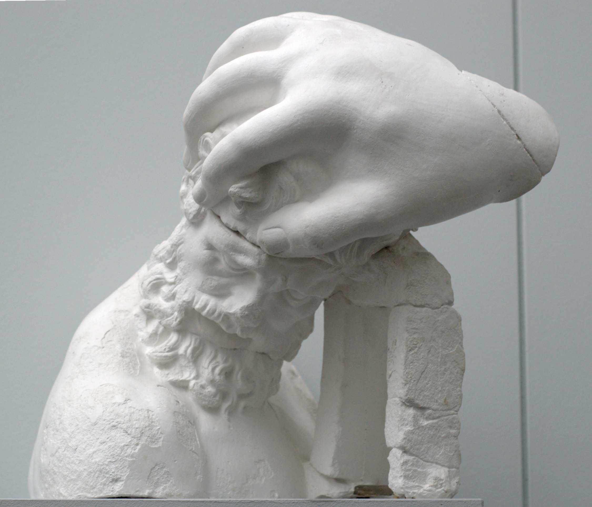 Right hand of Scylla catching one of Odysseus' companions, fragment from the Scylla group of Sperlonga, 1st century CE. Modern copy after an original in the Sperlonga Museum (see below).